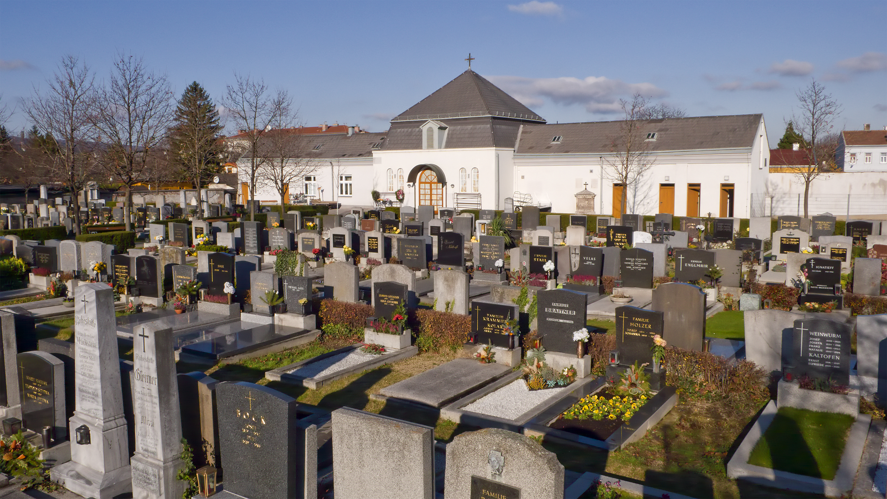 Vienna Liesing: Friedhof Atzgersdorf